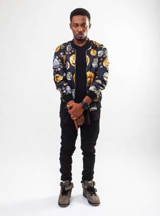 Terry ThaRapman